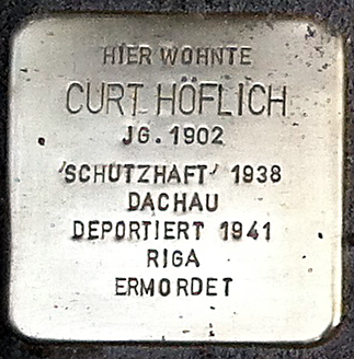 Stolperstein - Stumbling Stone in Nettetal, NRW, Germany Curt Hoeflich